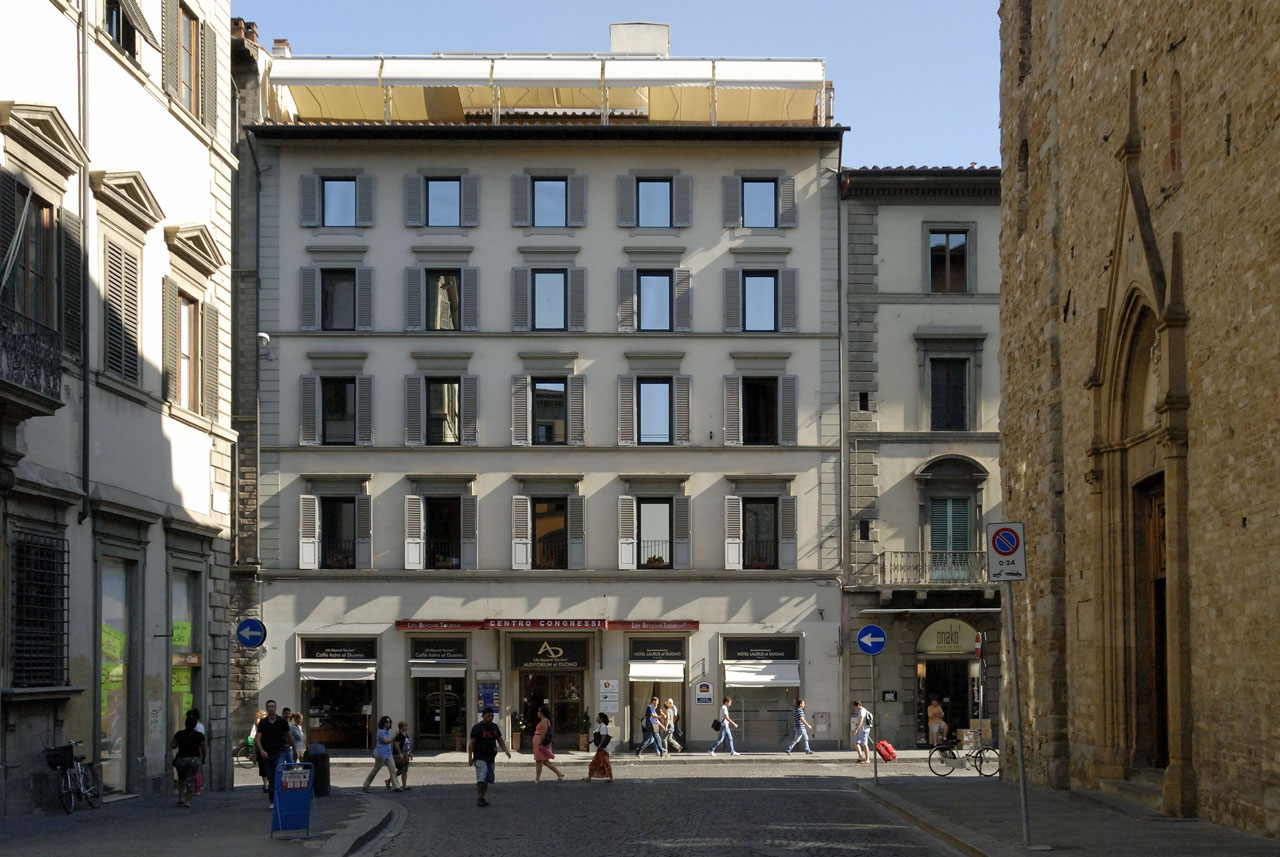 Front view of Auditorium al Duomo, Laurus and Astra